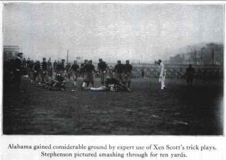 Riggs Stephenson of the Alabama Crimson Tide gains 10 yards against Case School of Applied Science, now known as Case Western Reserve University. Game held was played at Van Horne Field in University Circle, Cleveland, November 27, 1920.